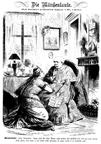 Story-telling aunt Bismarck tells Germania (Germany) a fairy tale about golden mountains. Caption: Story-telling aunt: "Dear Germania! Then the poor man will be rich and happy and will have no sorrow. And if he does not die until then, he will perhaps even experience it."